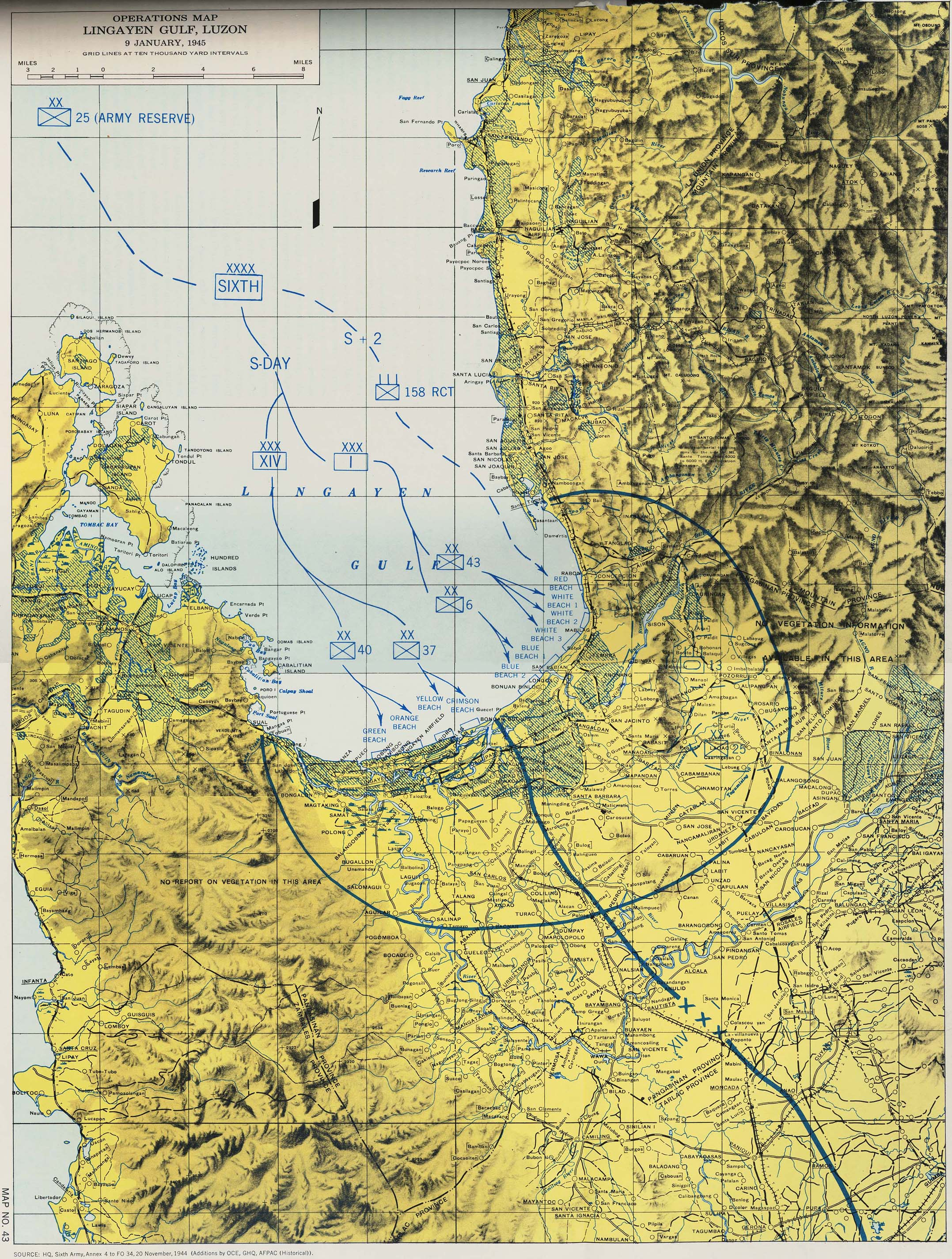 Map of the landing plan in Lingayen Gulf 1945